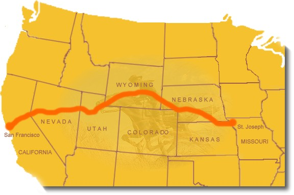 Pony Express map from National Park Service site.